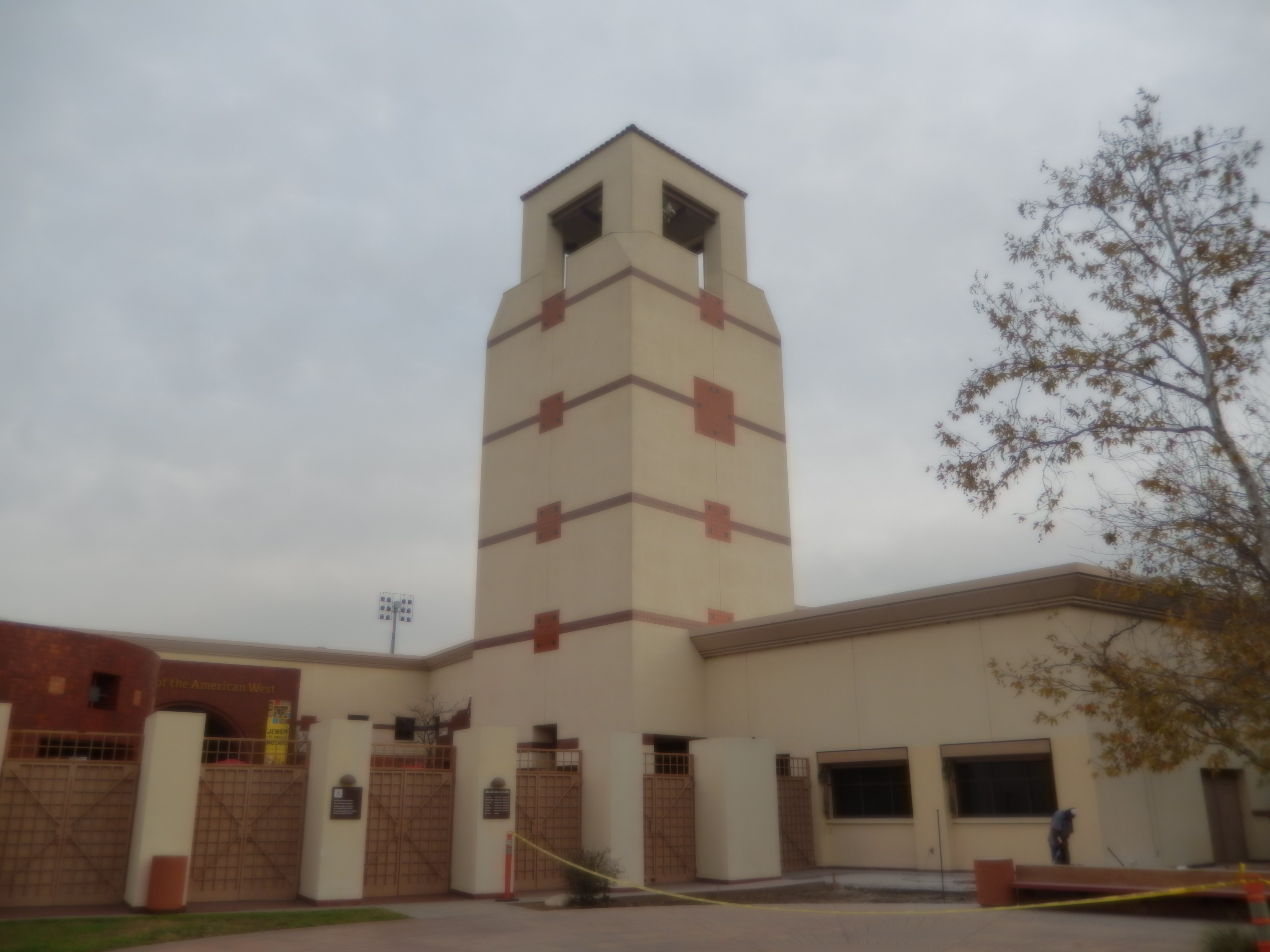 I took photo of tower at Autry National Center in Griffith Park, Los Angeles, CA, with Nikon camera.